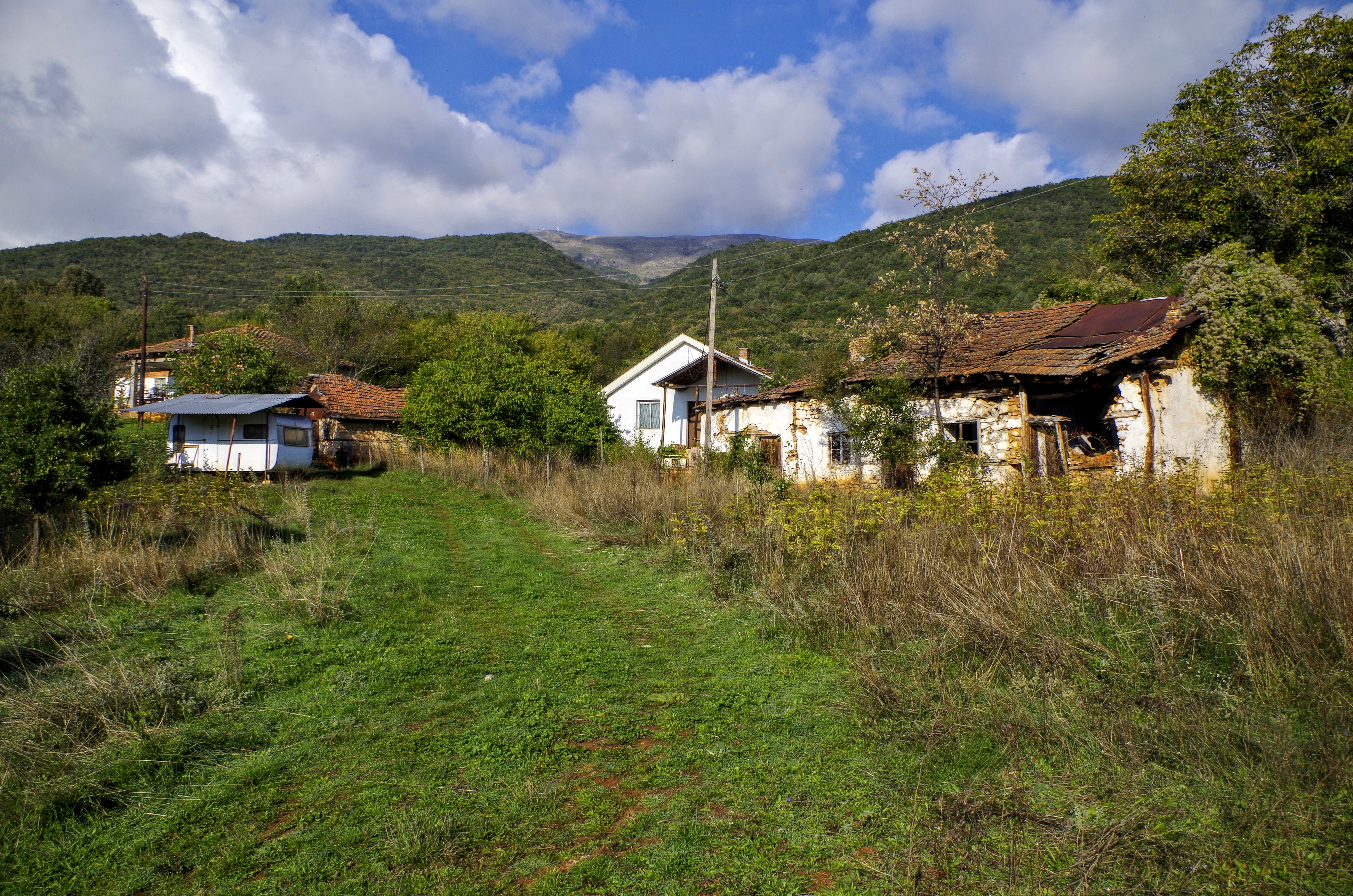 View of the village Oteševo